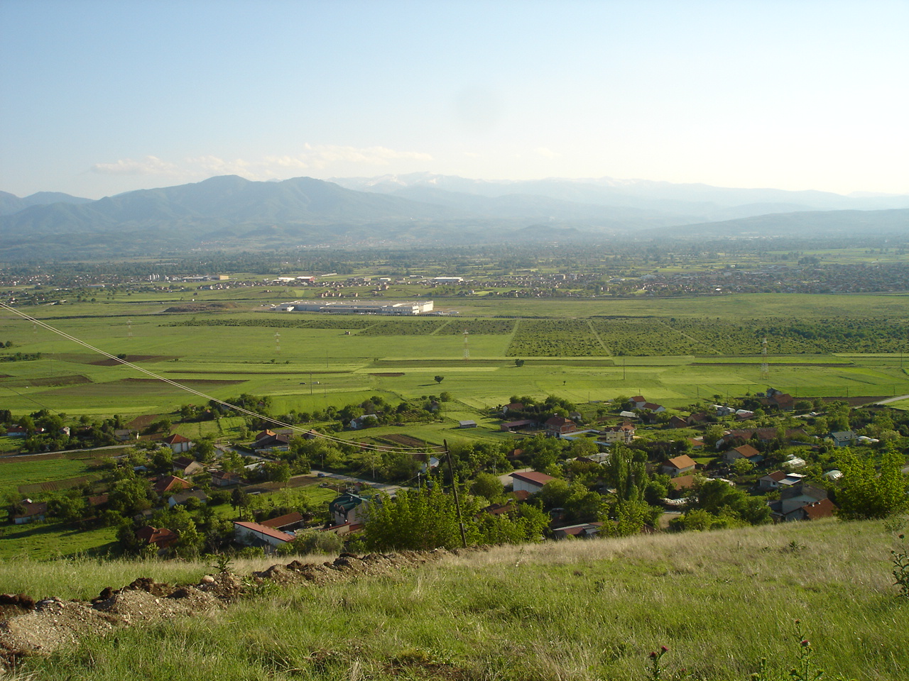 village of Brnjarci, near Skopje, Macedonia